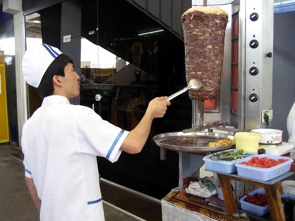 Kebab vendor, Russian Bazaar, Ashgabat, Turkmenistan